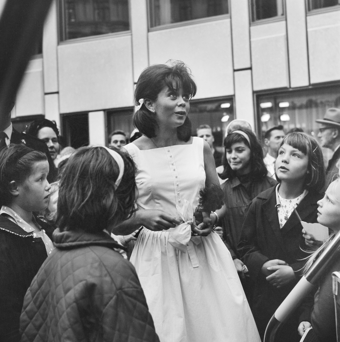 Norwegian singer Wenche Myhre (spelt Wencke Myhre in the German-speaking market) during the opening of the Vikaterrassen in Oslo Centre. Haakon VIIs gate 10.